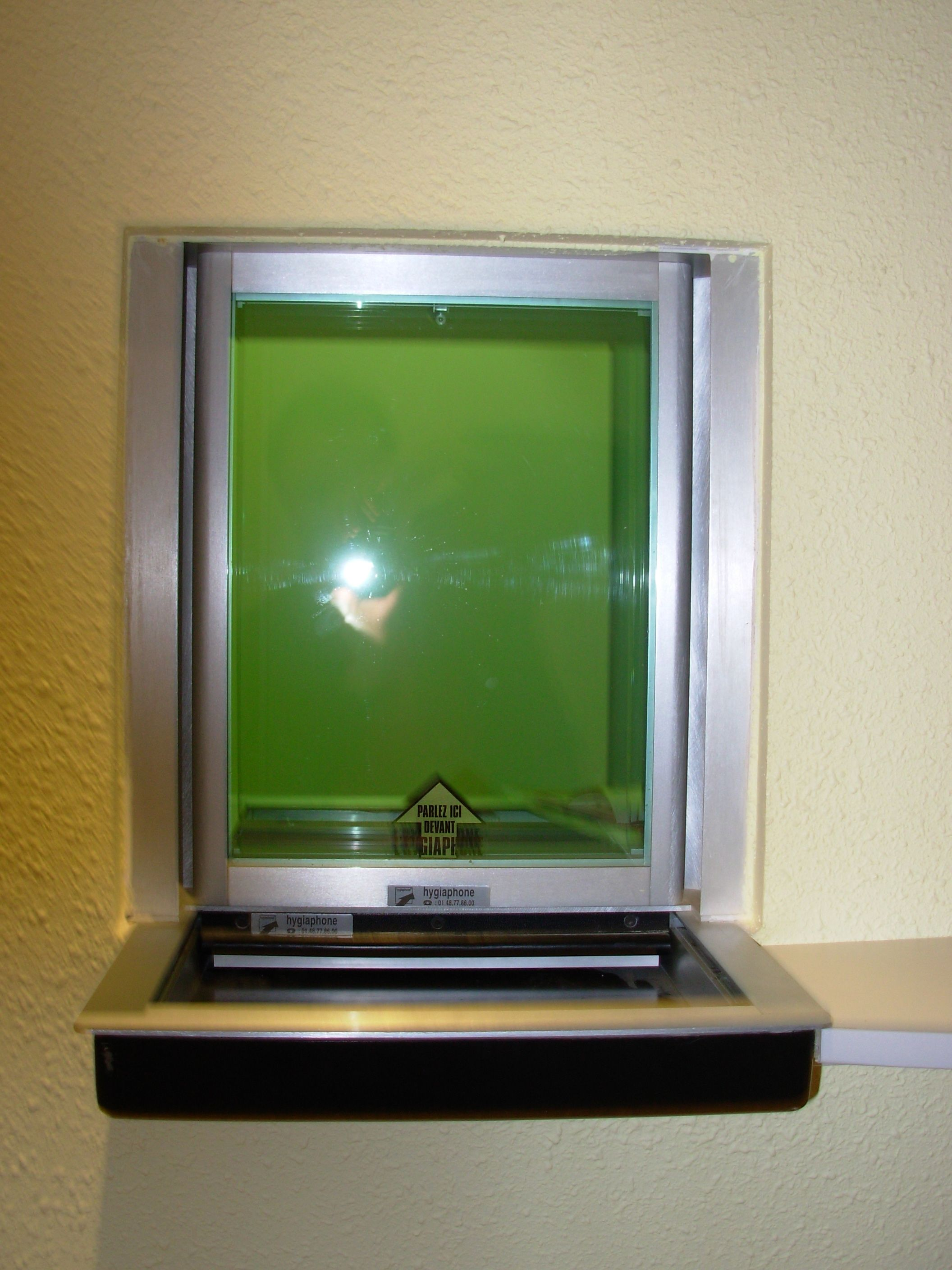 photo from a Hygiaphone taken in a french post office march 2006